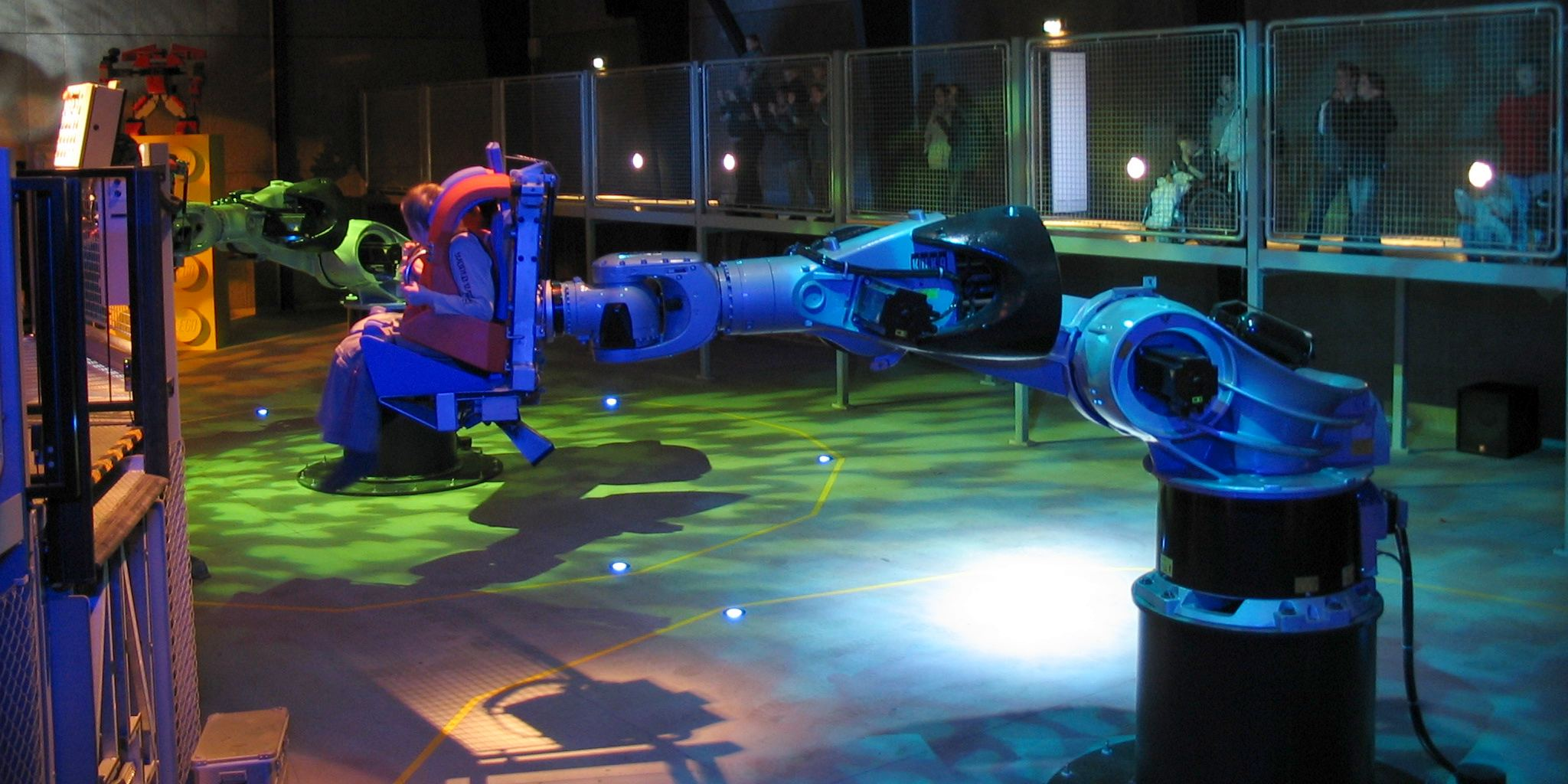 KUKA Robocoaster amusement park ride at Legoland Billund, Denmark.